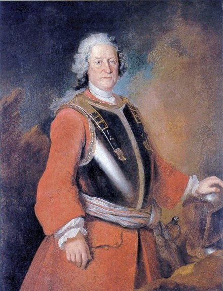 Portrait of Jean de Bodt (1670-1745), Baroque architect